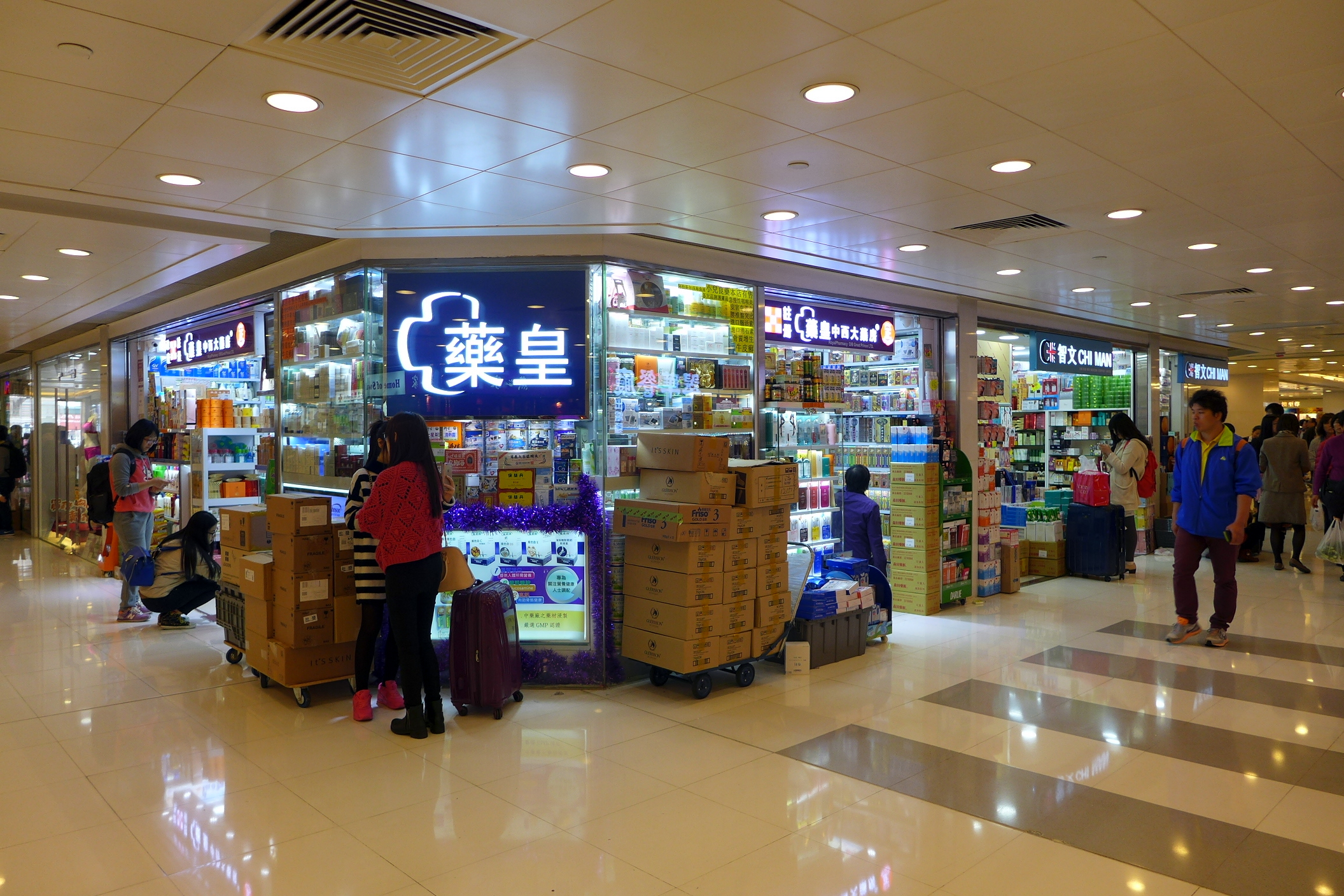 Shatin Plaza Level 3 Pharmacy